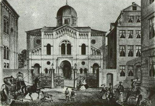 The former main synagogue of Hamburg's German-Israelite Congregation was located at 19-20 an den Kohlhoefen in the New City district. Designed by Albrecht Rosengarten and constructed in 1859, it was the first synagogue in Hamburg positioned so that it was visible from the street, though it was nonetheless screened off by a wall. The building stood until it was razed in 1934 as an urban renewal measure.